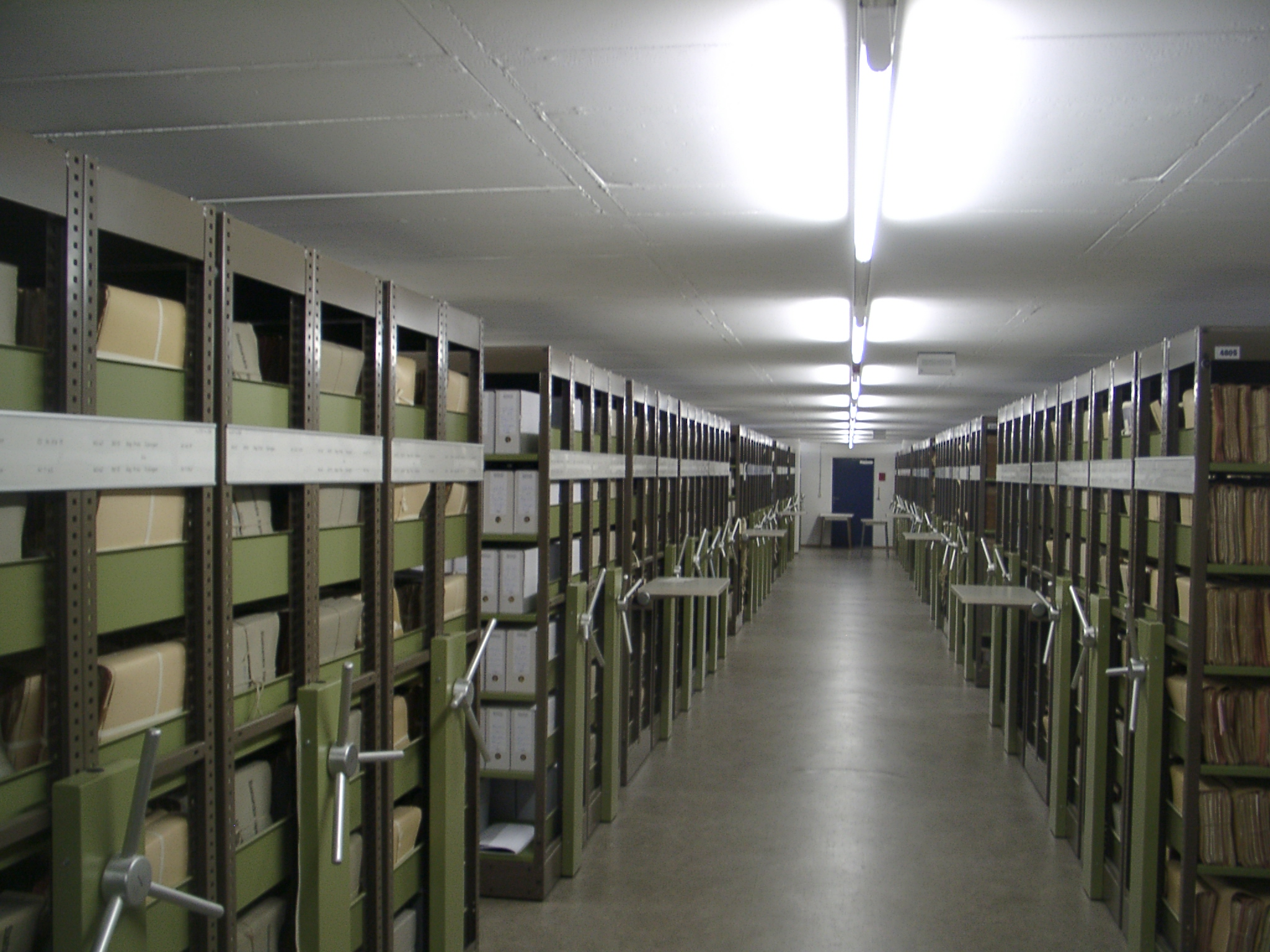 Mobile aisle shelving in the Sigmaringen State Archive